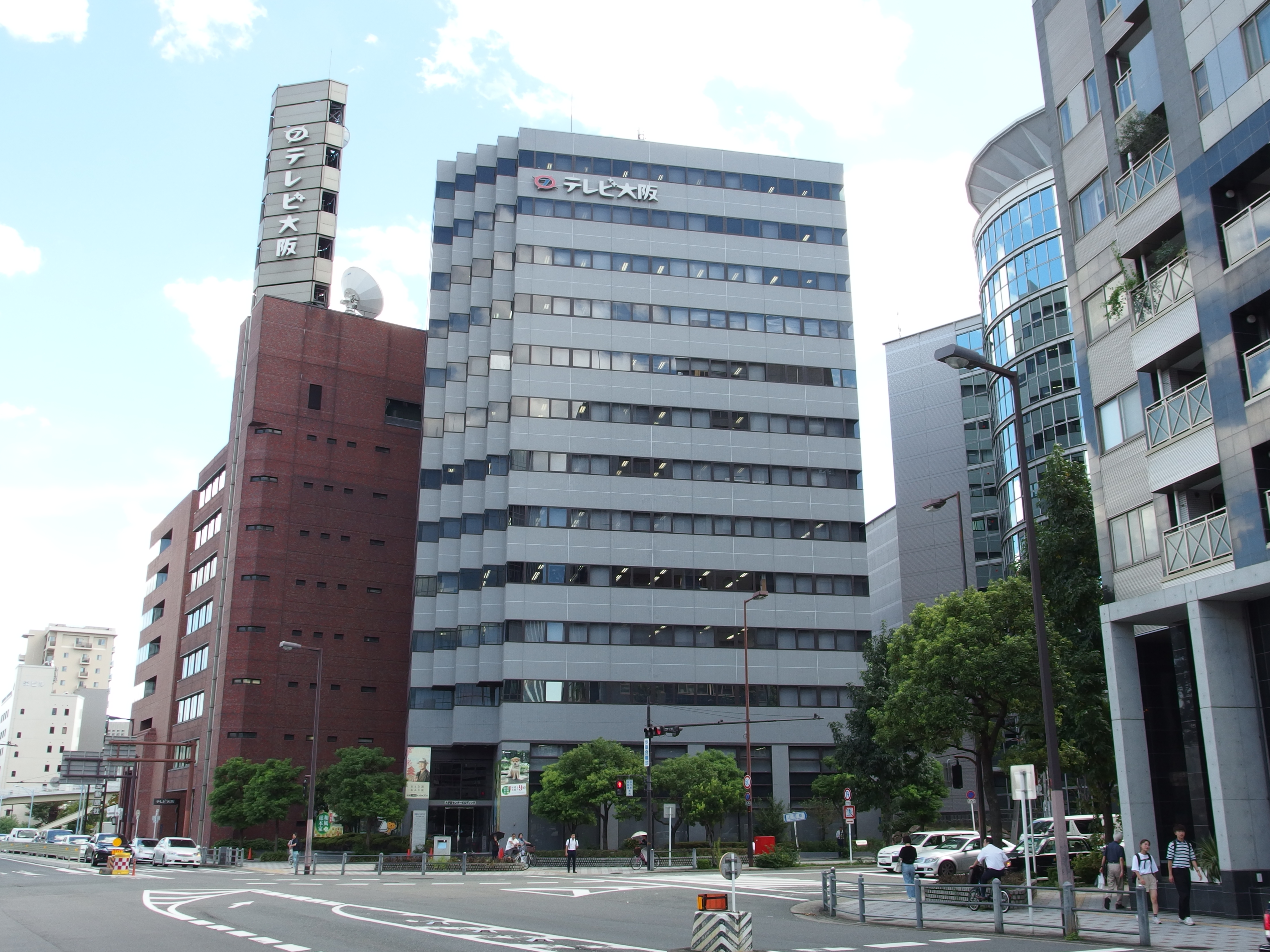 TV Osaka in Osaka, Osaka Prefecture, Japan.